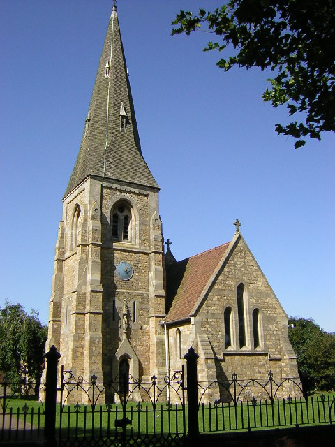 All Saints parish church, Harby, Nottinghamshire, seen from the southeast from Church Road